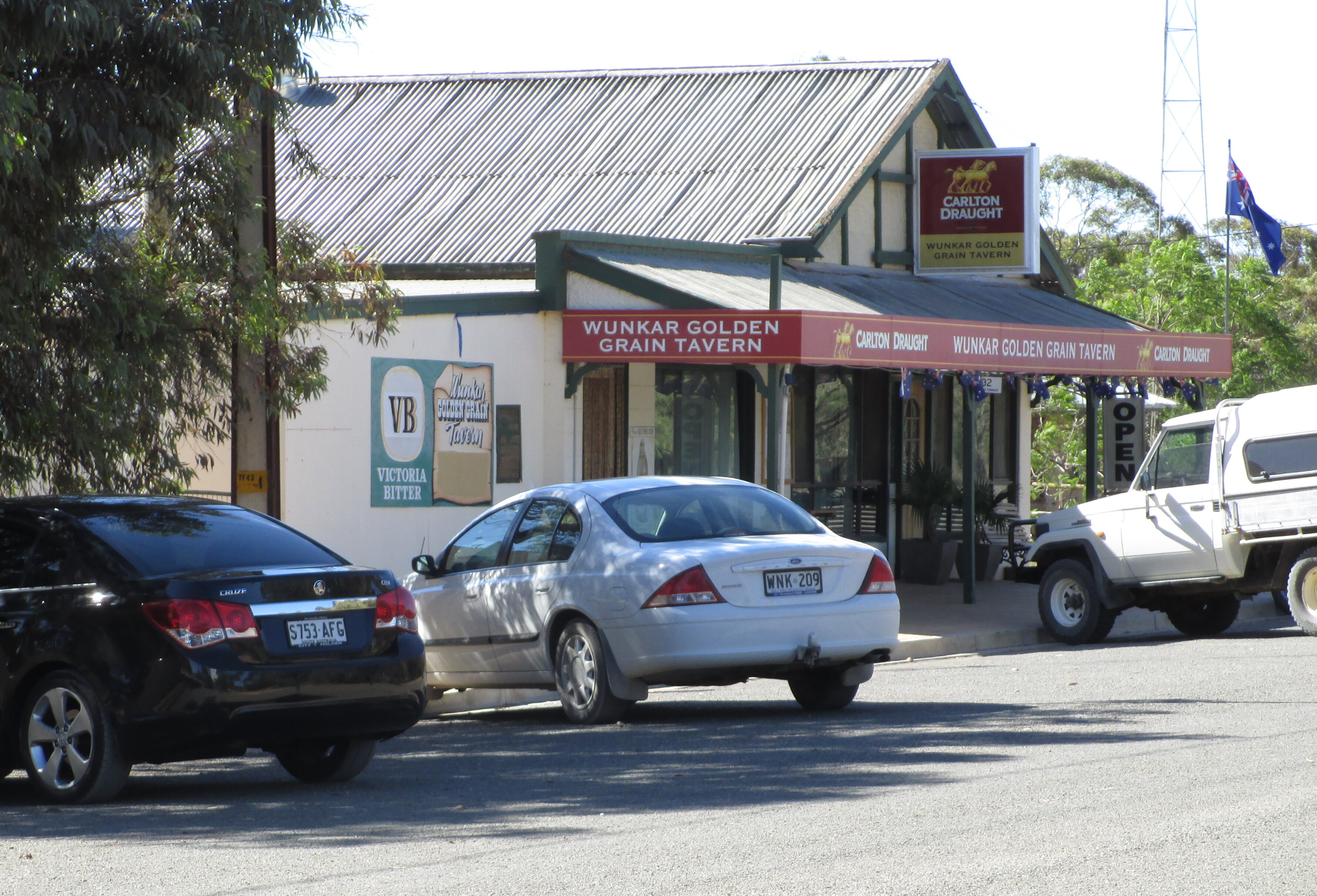 tavern and streetscape